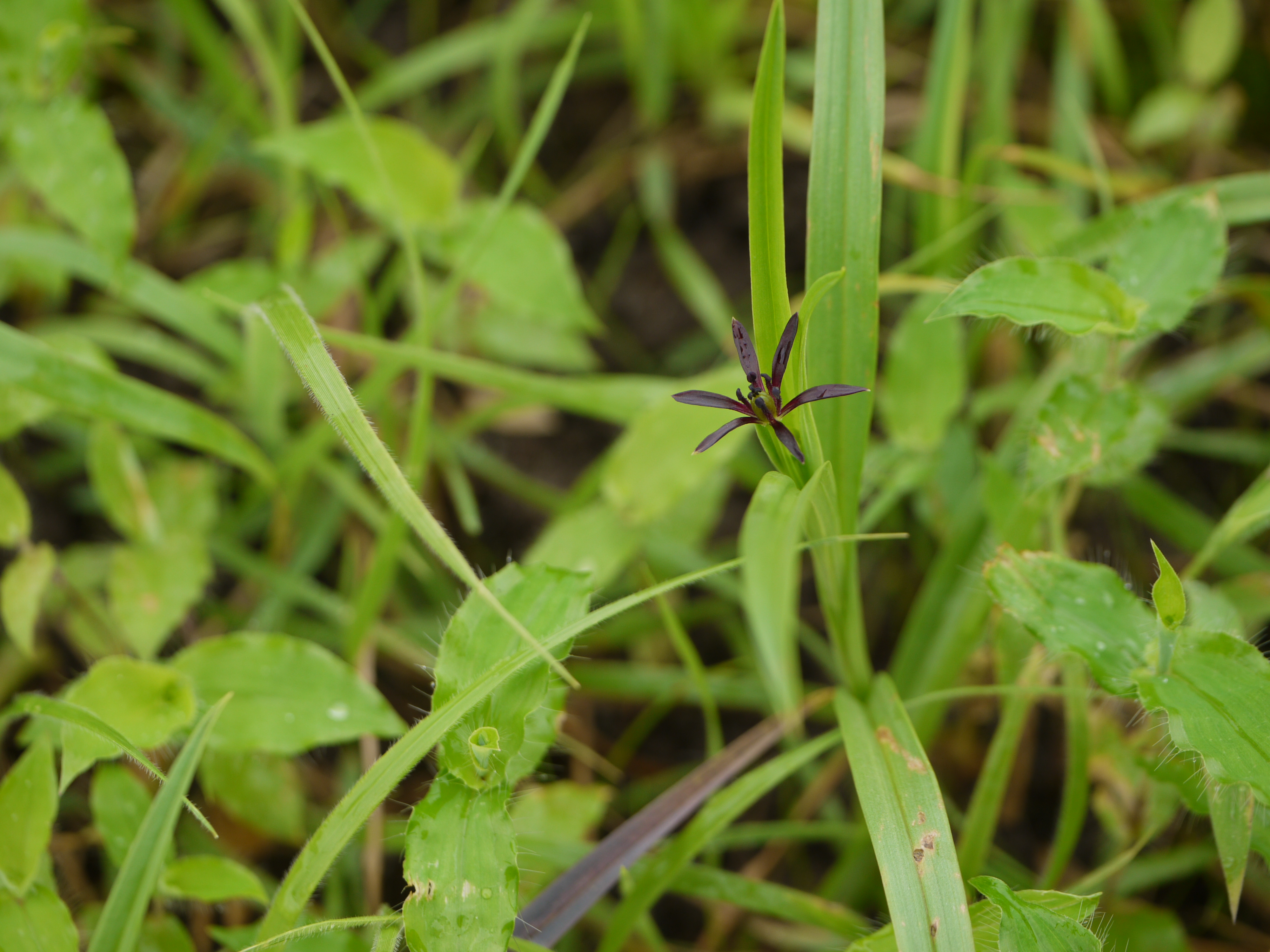 Colchicaceae (Colchicum family) » Iphigenia indica (L.) Kunth if-uh-juh-NY-uh -- the genus named for daughter of Clytemnestra and Agamemnon IN-dih-kuh or in-DEE-kuh -- of or from India commonly known as: Indian grass lily • Kannada: ಕಾಡು ಬೆಳ್ಳುಳ್ಳಿ kaadu bellulli, ನೀರು ಬಾಳೆ neeru baale • Marathi: जांभळे भुईचक्र jambhale bhui-chakra • Telugu: కాకి కాటుక kaki katuka Native of: s China, India, Sri Lanka, Myanmar, Thailand, Malesia, n Australia References: Flowers of India • eFlora • NPGS / GRIN • ENVIS - FRLHT